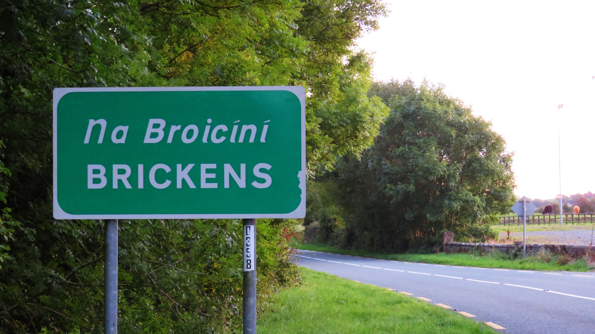 Road sign on the N60 road at the northern entrance to Brickens in County Mayo, Ireland.